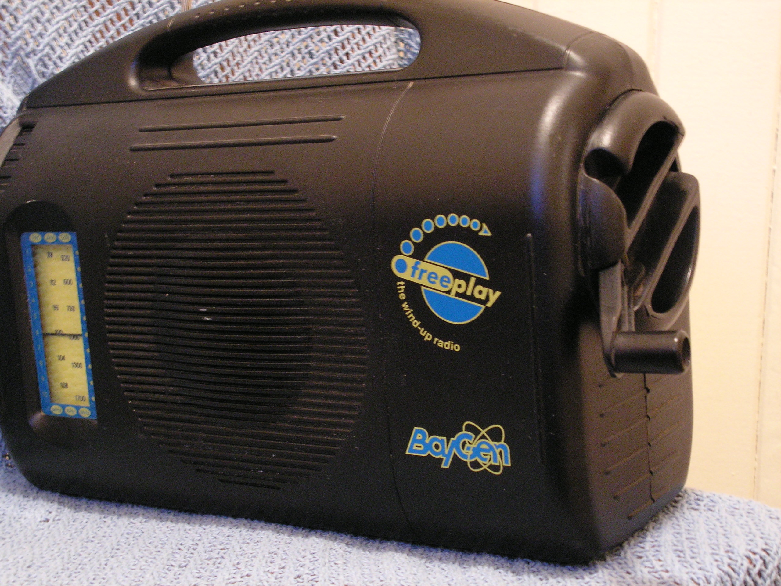 A BayGen Freeplay clockwork radio. It is powered by human muscle power and does not need batteries or recharging from mains power outlets. The radio is powered by a small internal electric generator turned by a spiral mainspring. When it runs down, the mainspring is wound up by turning the crank visible on the right hand side. The crank folds into the frame when not in use. The FreePlay was the first modern human-powered radio, and was originally designed as a low-cost radio for use in rural developing countries where electric power and batteries were not easily available.